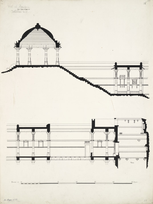 From the source, Illustration of Jethabhai Mulji's Step-well at Isanpur in Ahmadabad in Gujarat. James Burgess writing in 1905 in the Archaeological Survey of Western India, VIII, states "two and a half miles south of Ahmadabad, near Isanpur...[is] perhaps one of the most modern examples of the regular wav [step well]. It was constructed little more than forty years ago by the late Jethabhai Jivanlal Nagjibhai (or Mulji) of Ahmadabad. To obtain the materials, he purchased from the holder of Shah Alam the rauza belonging to a masjid known as that of Malik Alam...and from the late Qazi Hasan-ad-din of Ahmadabad he bought the Nenpurvada masjid at Rajapur-Hirpur together with its accompanying rauza. These were pulled down by the Hindu purchaser and the materials used in the construction of this well and in putting up a portico to his temple in the Shahrkotda suburb. In the ornamentation of the well one of the mihrabs of the mosque has evidently been utilized. This wav...is 210 feet in extreme length and from 21 to 22 feet wide, with a dome raised on twelve pillars on the entrance at the west end. It has the usual descents from platform or gallery to gallery."